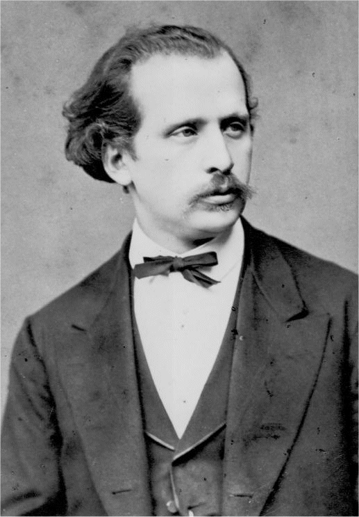 Nikolai Grigoryevich Rubinstein, russian pianist and composer